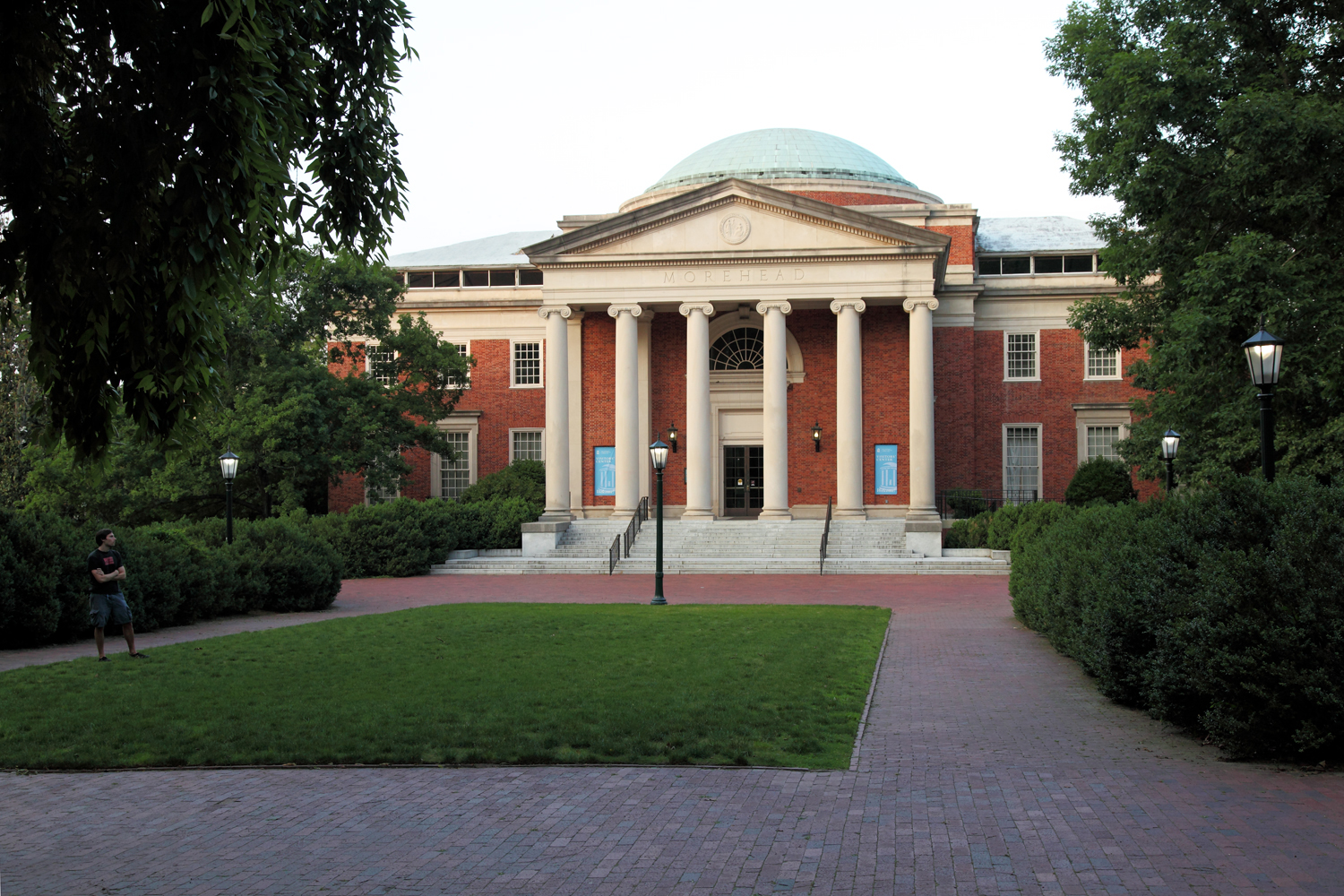 Morehead Planetarium and Science Center at the University of North Carolina in Chapel Hill, North Carolina.